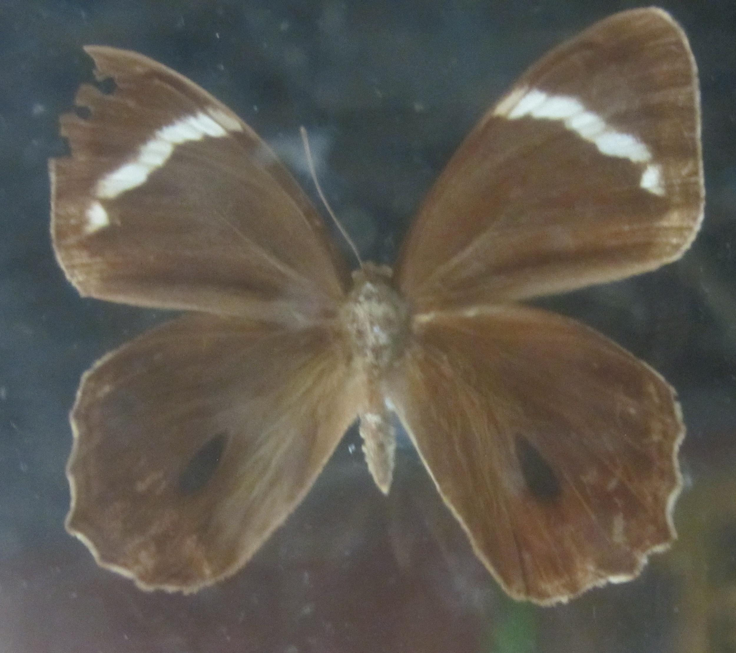 Specimen of Lethe mataja